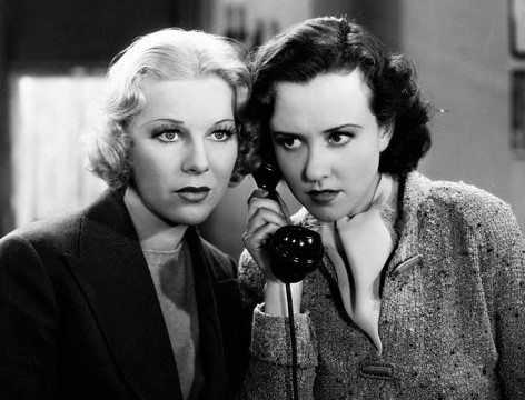 An original studio photo of the 1936 film The Law in Her Hands, with Glenda Farrell and Margaret Lindsay.